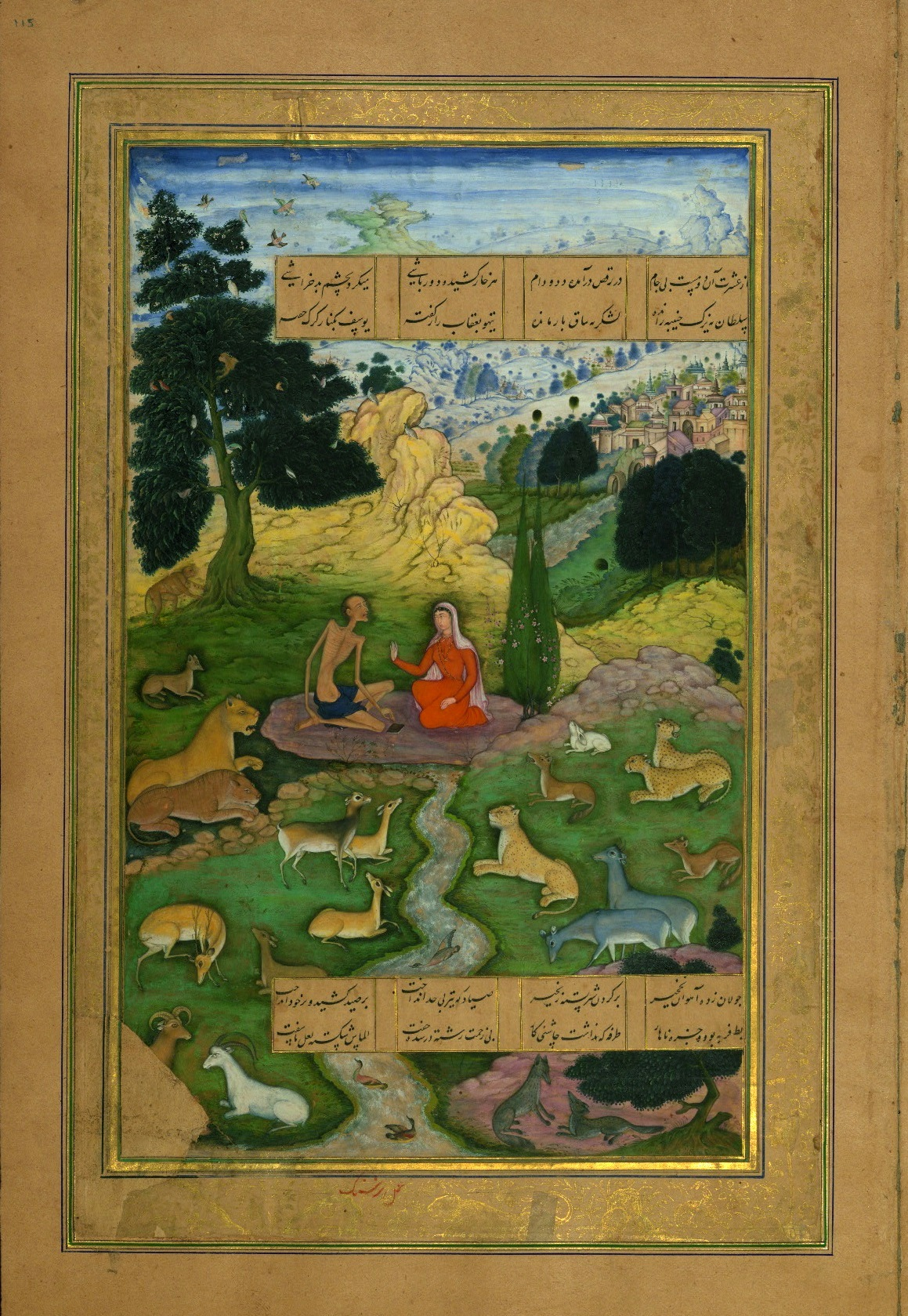 Layla visits Majnun in the wilderness. From the "Khamsah", Five Poems (Quintet) of Amir Khusro. Other images from the manuscript are on the Walters Museum flickr album